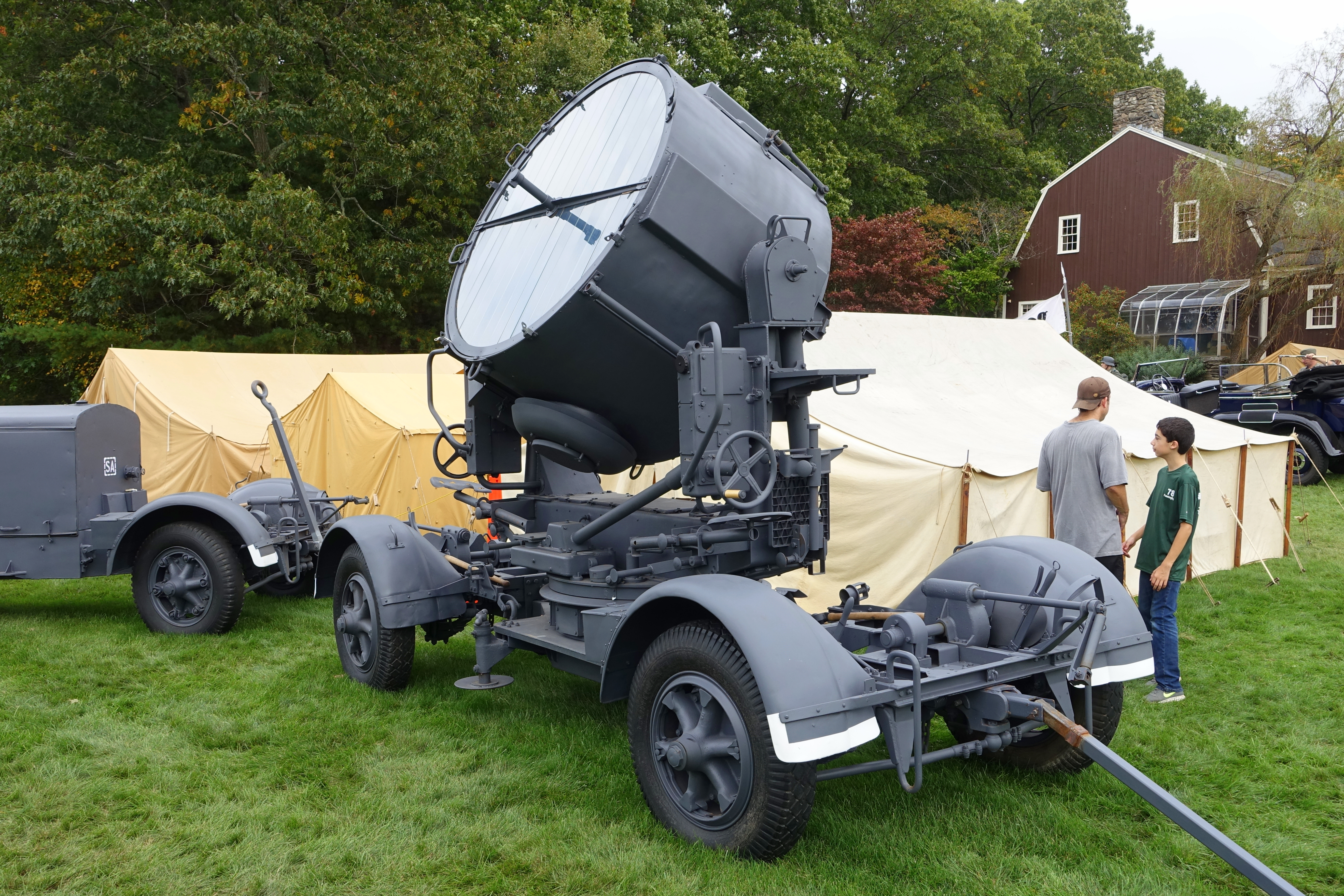 Battle for the Airfield, 2017 - Collings Foundation - Stow / Hudson, Massachusetts, USA.